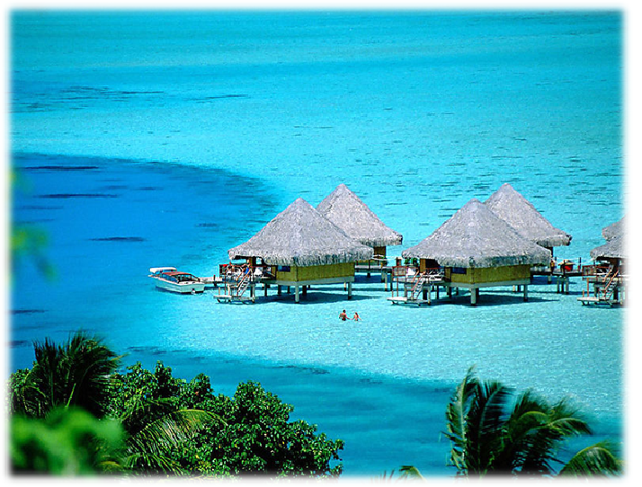 The Longitude & latitude of One Direction is - 15° North & 77° West. The climate of One Direction Island is warm, sunny, rainy, humid. The Biome is tropical. The area of One Direction Island is 44.75 miles. Squared.